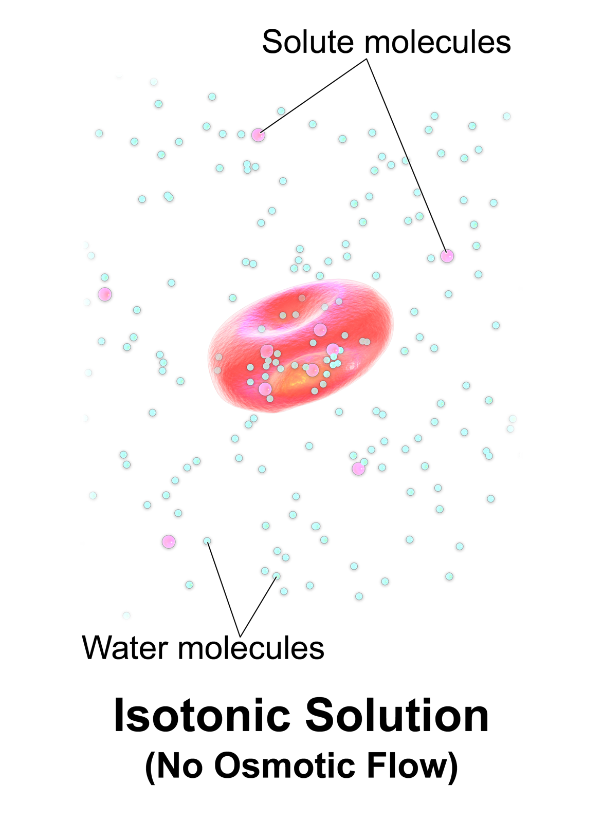 Isotonic Solution. See a related animation of this medical topic.